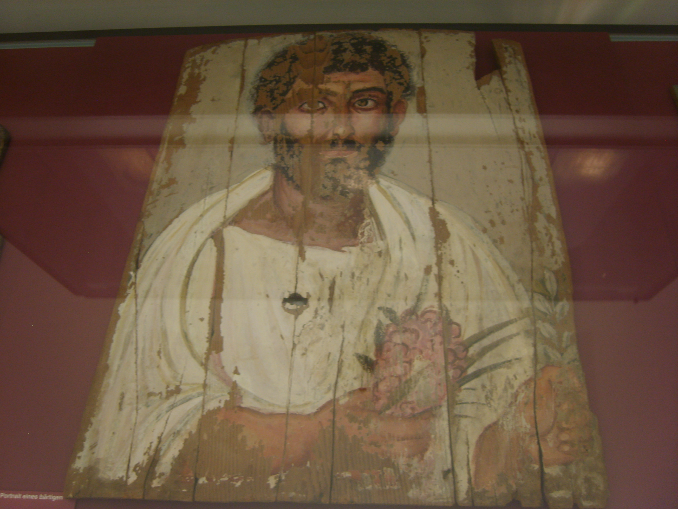 Österreichische Nationalbibliothek - Papyrusmuseum Dieses Bild wurde anlässlich des österreichischen Tags des Denkmals 2012 in Wien eingereicht.